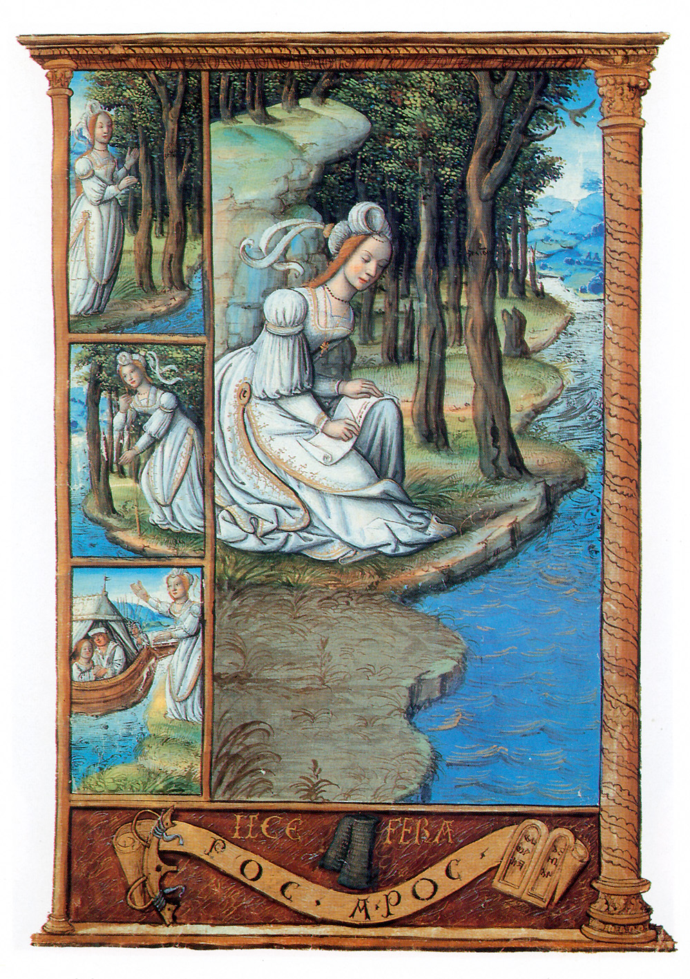 Rouen School: the mountain nymph Oenone at the river.